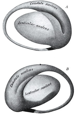 Two views of a model of the striatum: A, lateral aspect; B, mesal aspect.